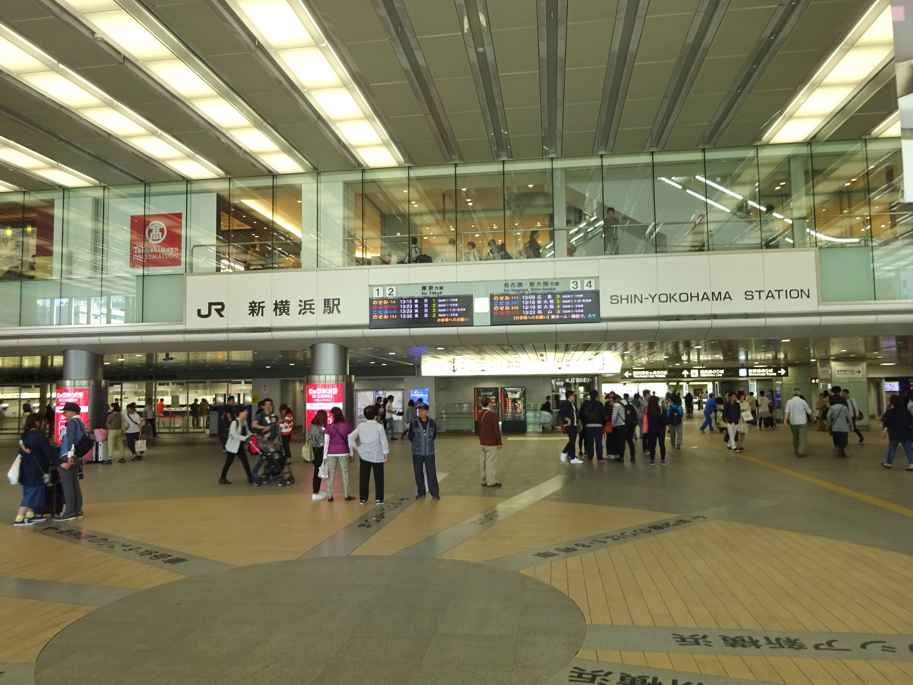 Shin-Yokohama Station(JR)